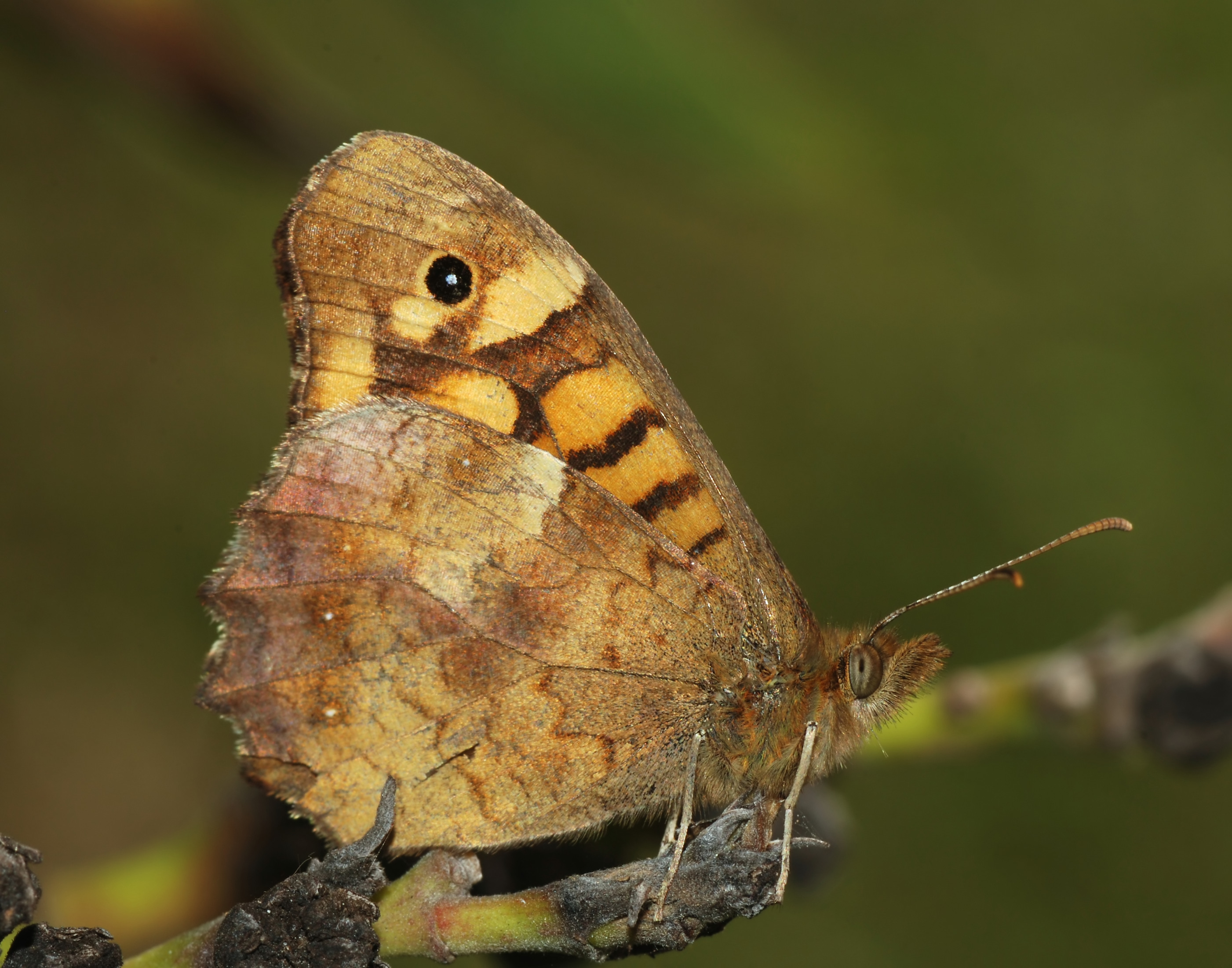 A Pararge aegeria butterfly (Satyridae) Camera: Nikon D80 with Tokina AF 100 Macro Exposur: 1/60, F/16, ISO 100